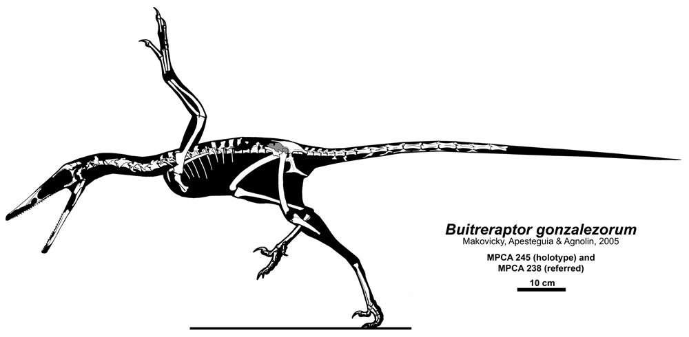 Skeletal reconstruction of Buitreraptor gonzalezorum.